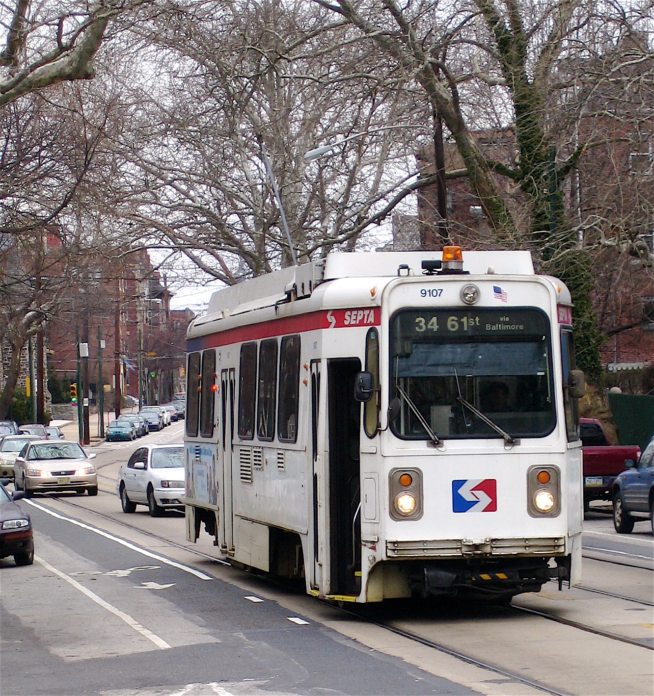 A Kawasaki SEPTA trolley, No. 9107, rolls west on West Philadelphia's Baltimore Avenue at 42nd Street on Feb. 19, 2008.